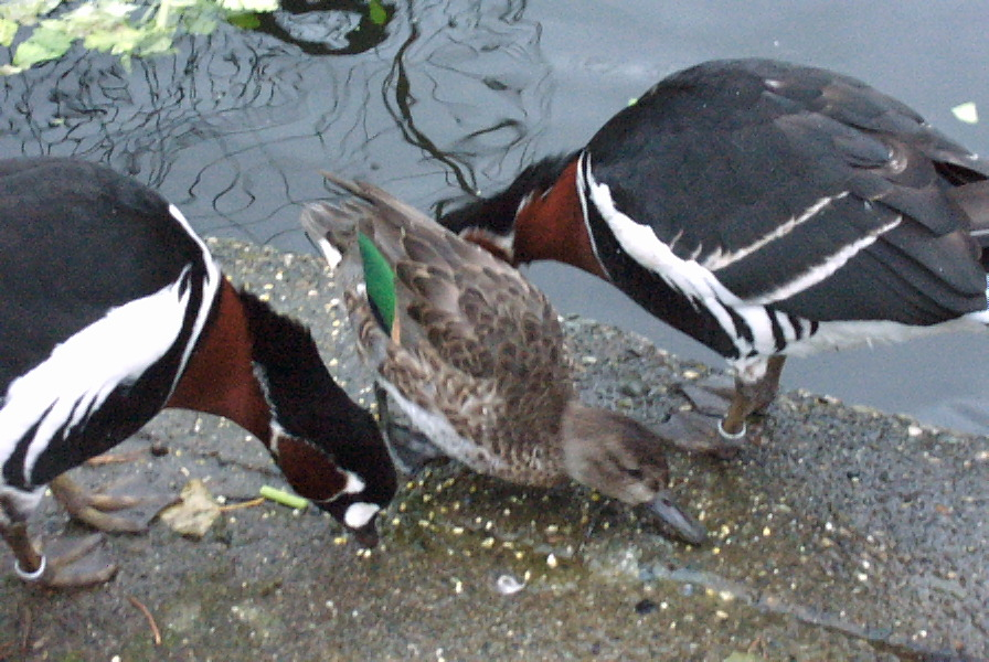 Two Syberian geese eating with a fledgling green-winged teal, hatched on the pond.